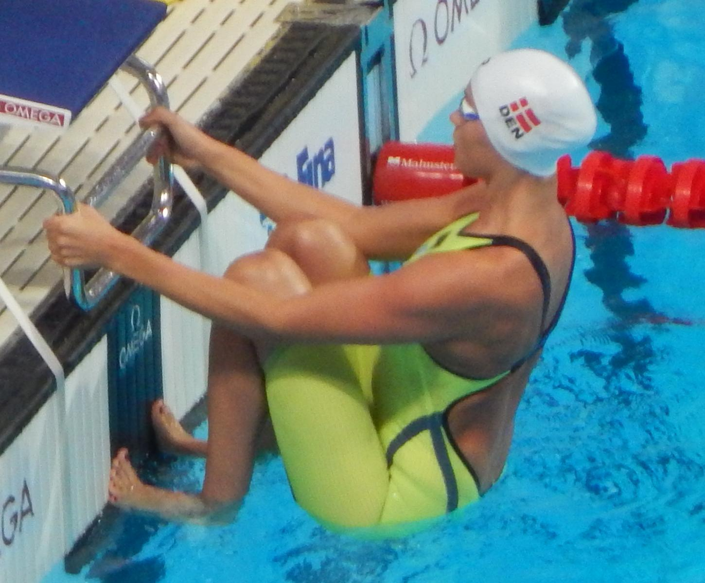 Mie Nielsen starts her 100m backstroke final